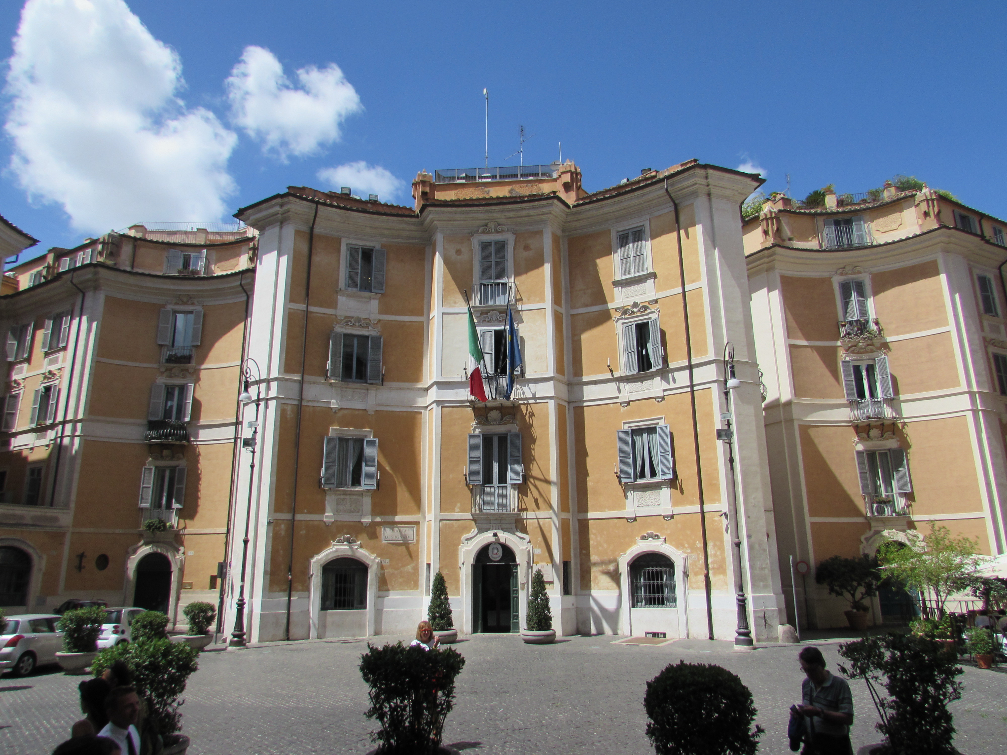 Sant'Ignazio Palace (Rome)